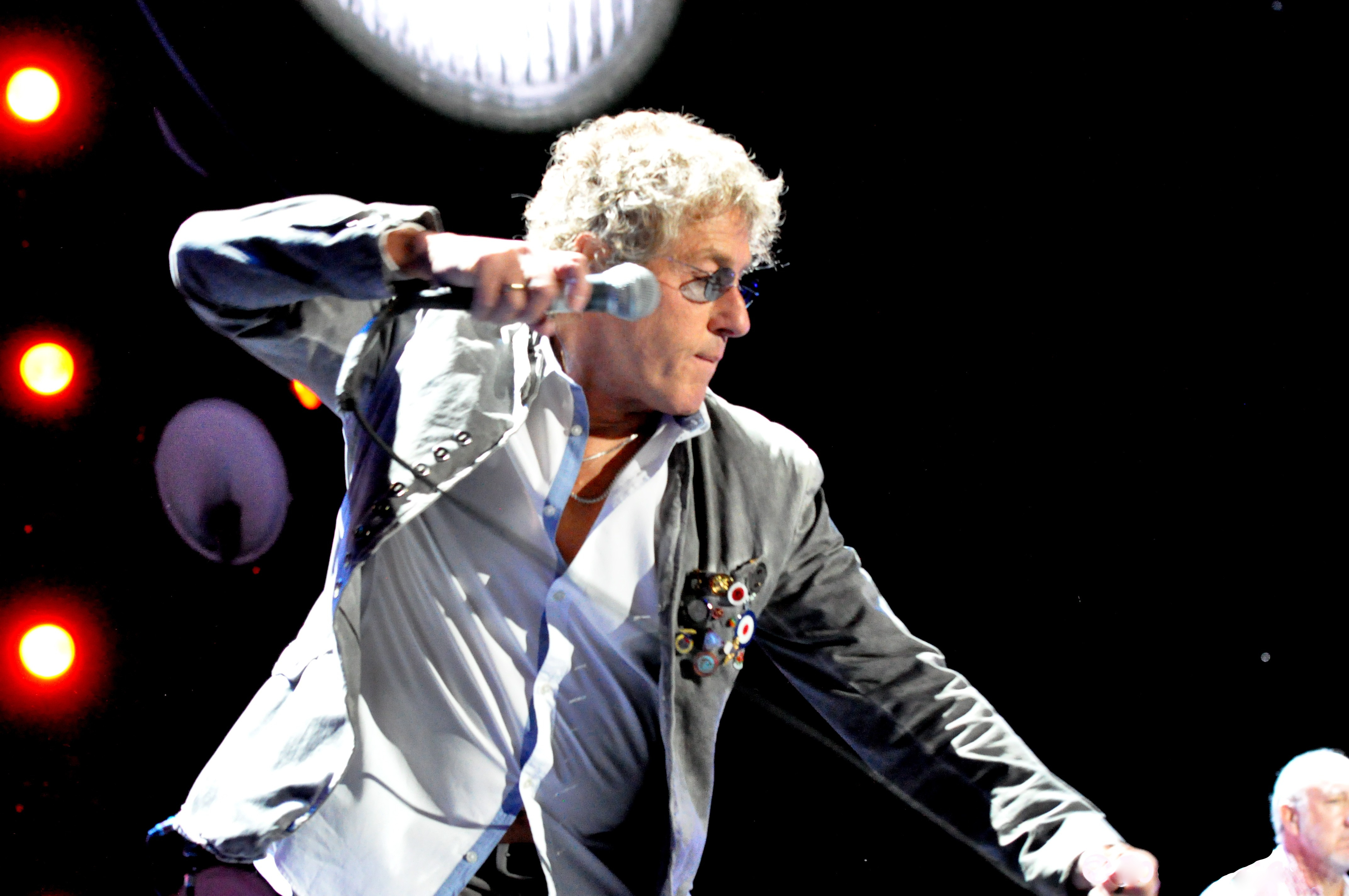 The Who.DSC_0092- 11.27.2012